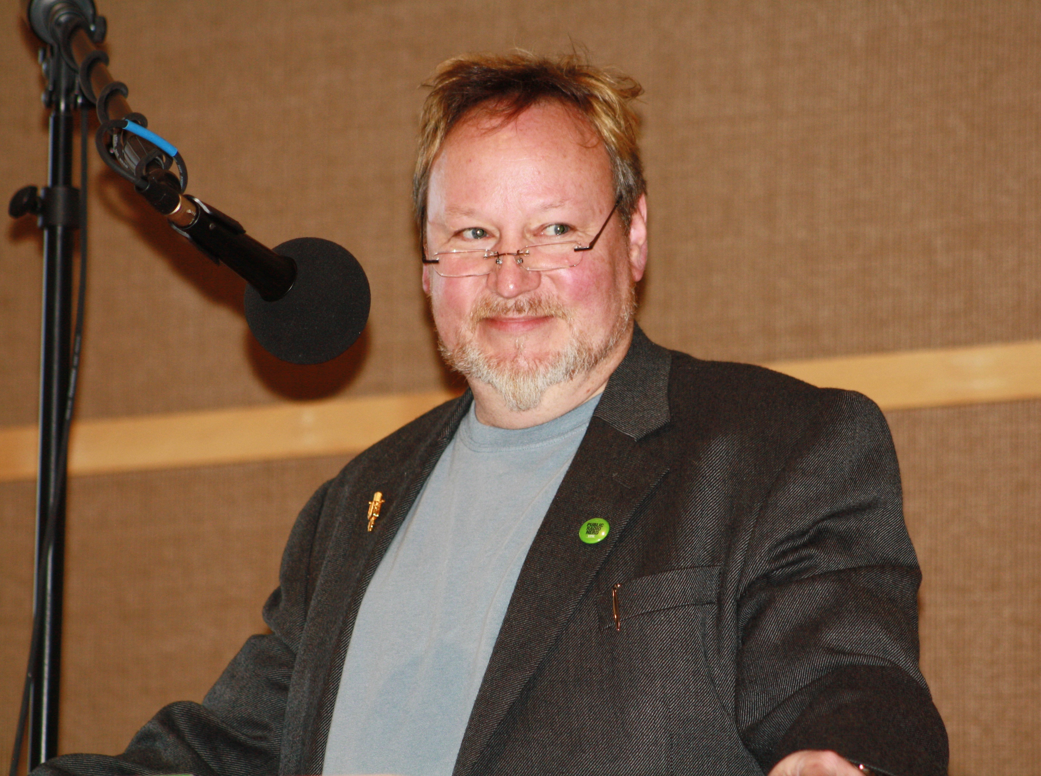 Host of Says You! since 2017